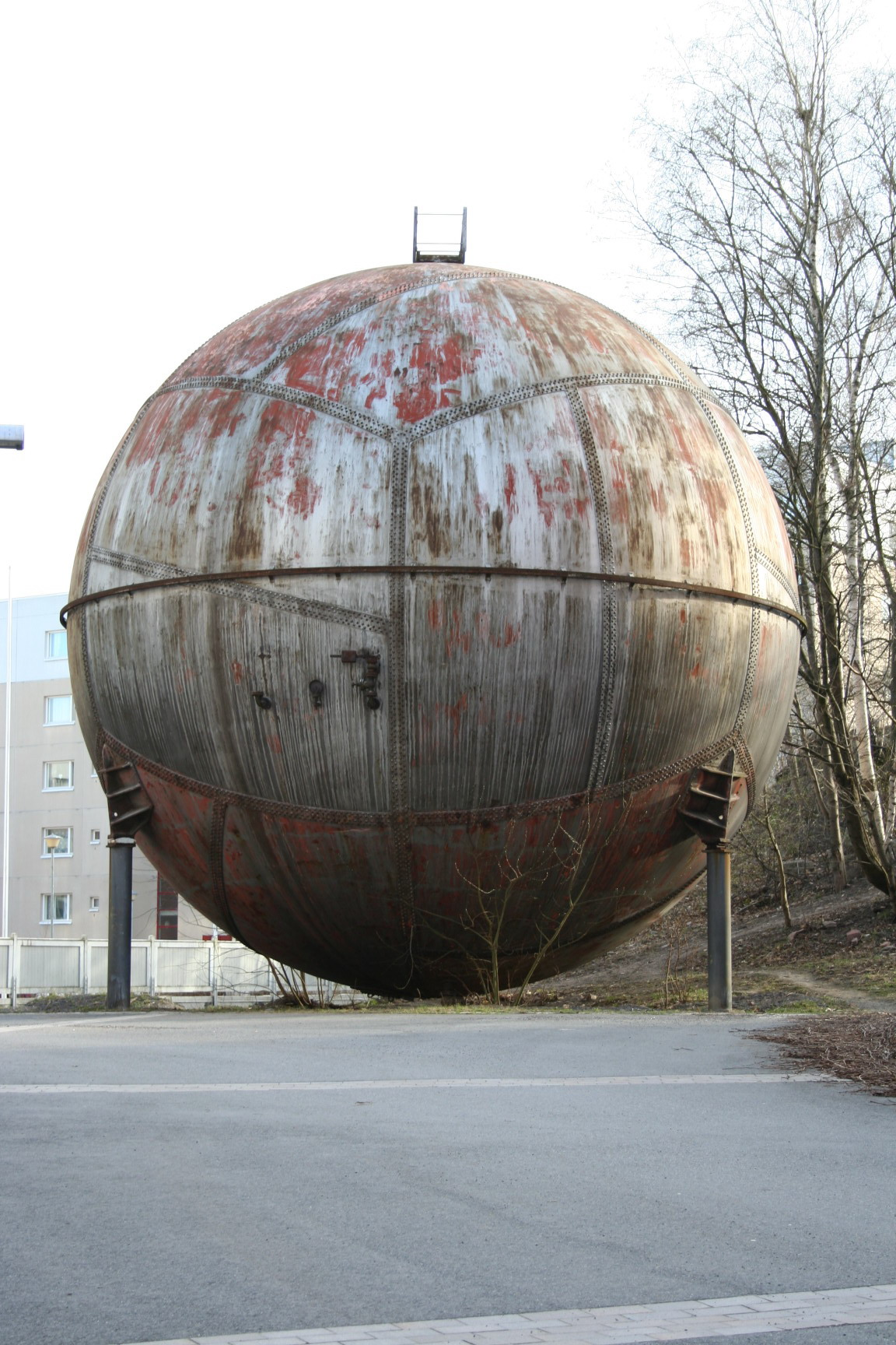 Gasometer in Turku, Finland. This steel ball was only for temporary use during high-season. Gas was pressurised. Gas volume 3500m3. Completed 1937.